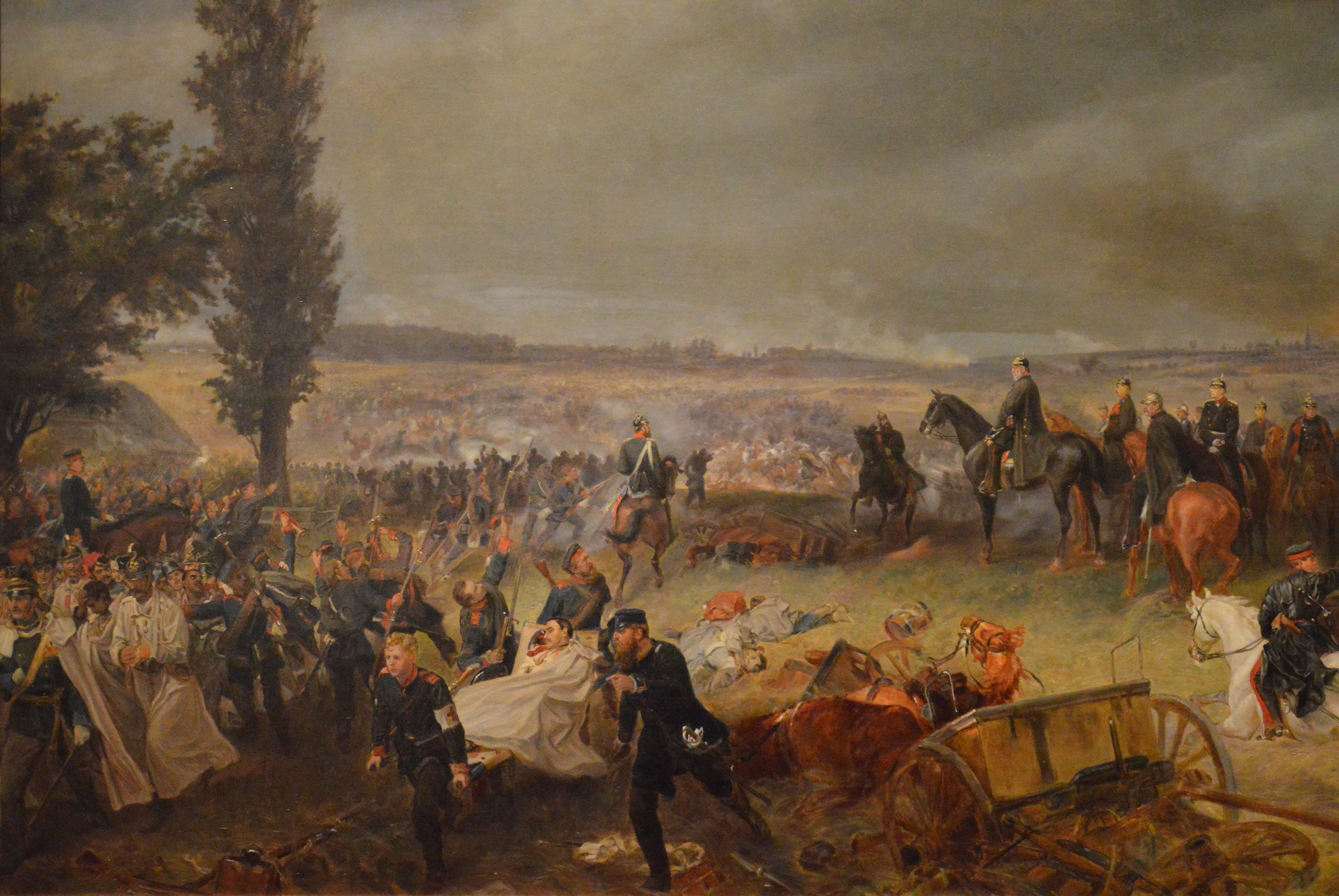 A section of Georg Bleibtreu's 1868 painting "Die Schlacht von Königgrätz" (The Battle of Königgrätz) in the Deutsches Historisches Museum, Berlin.